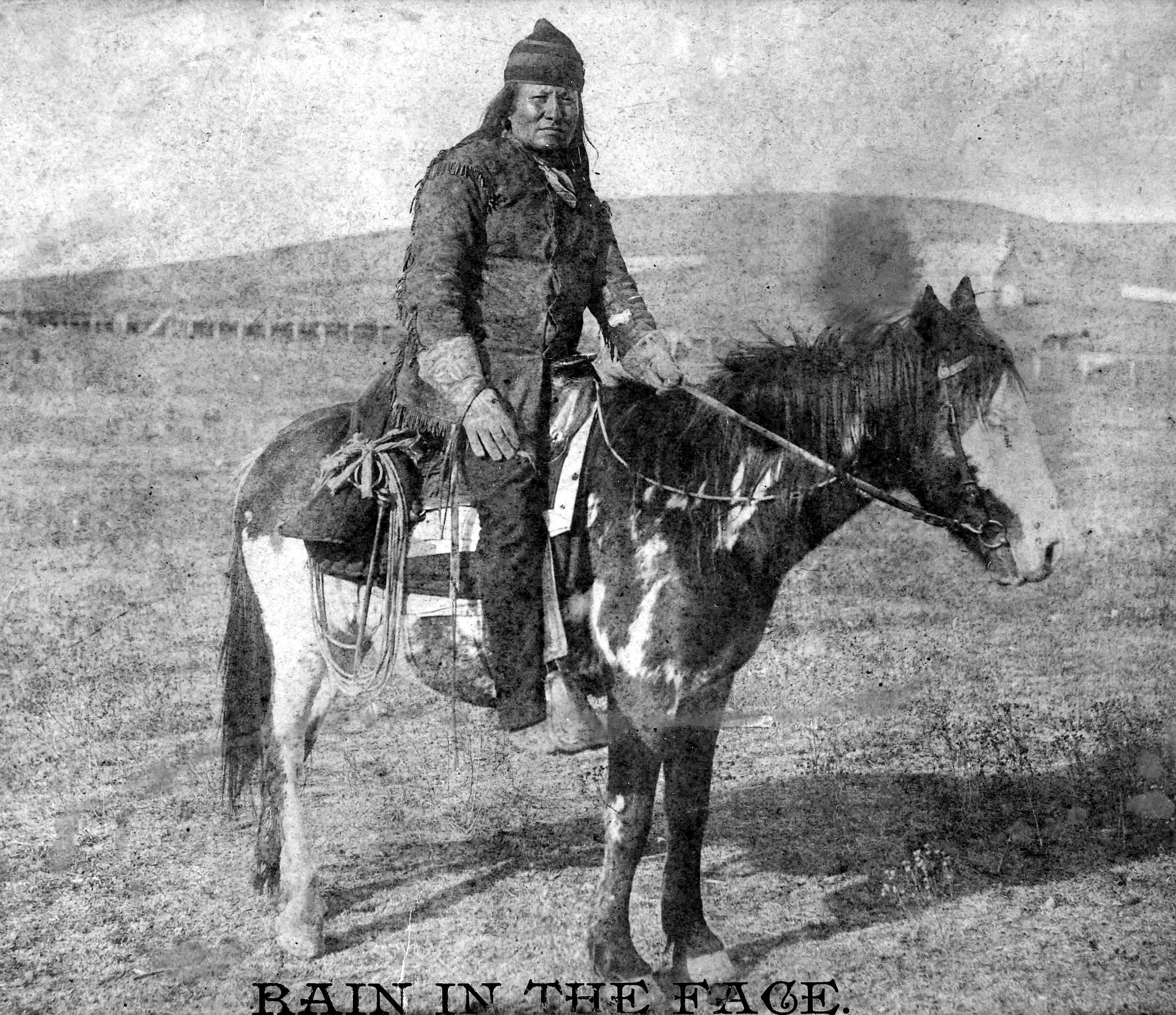 Chief Rain-In-The-Face on horse